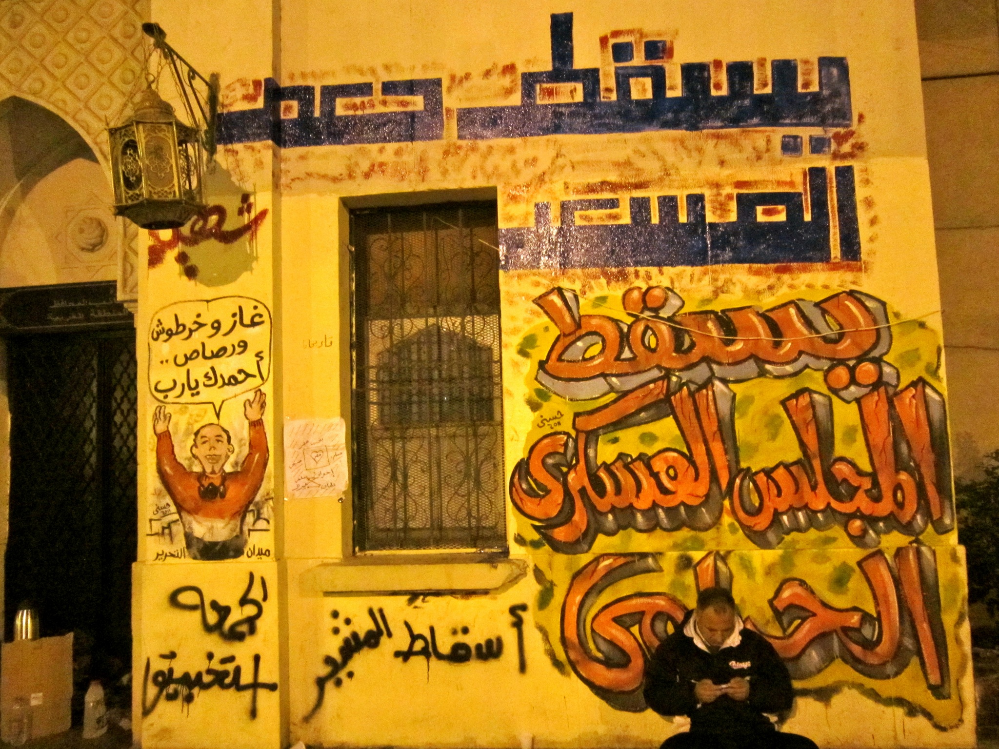 Graffiti criticizing the military rule of Egypt مصرى: جرافيتى للاعتراض على حكم العسكر